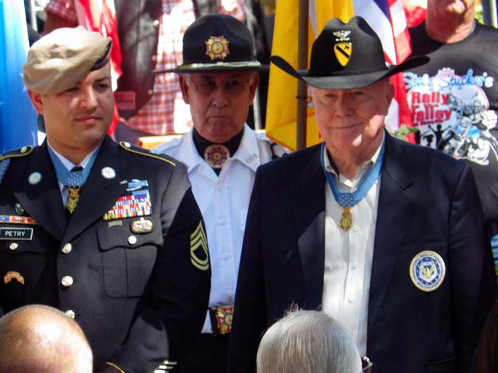 Medal of Honor recipients Leroy Petry (left) and Bruce Crandall, (right)